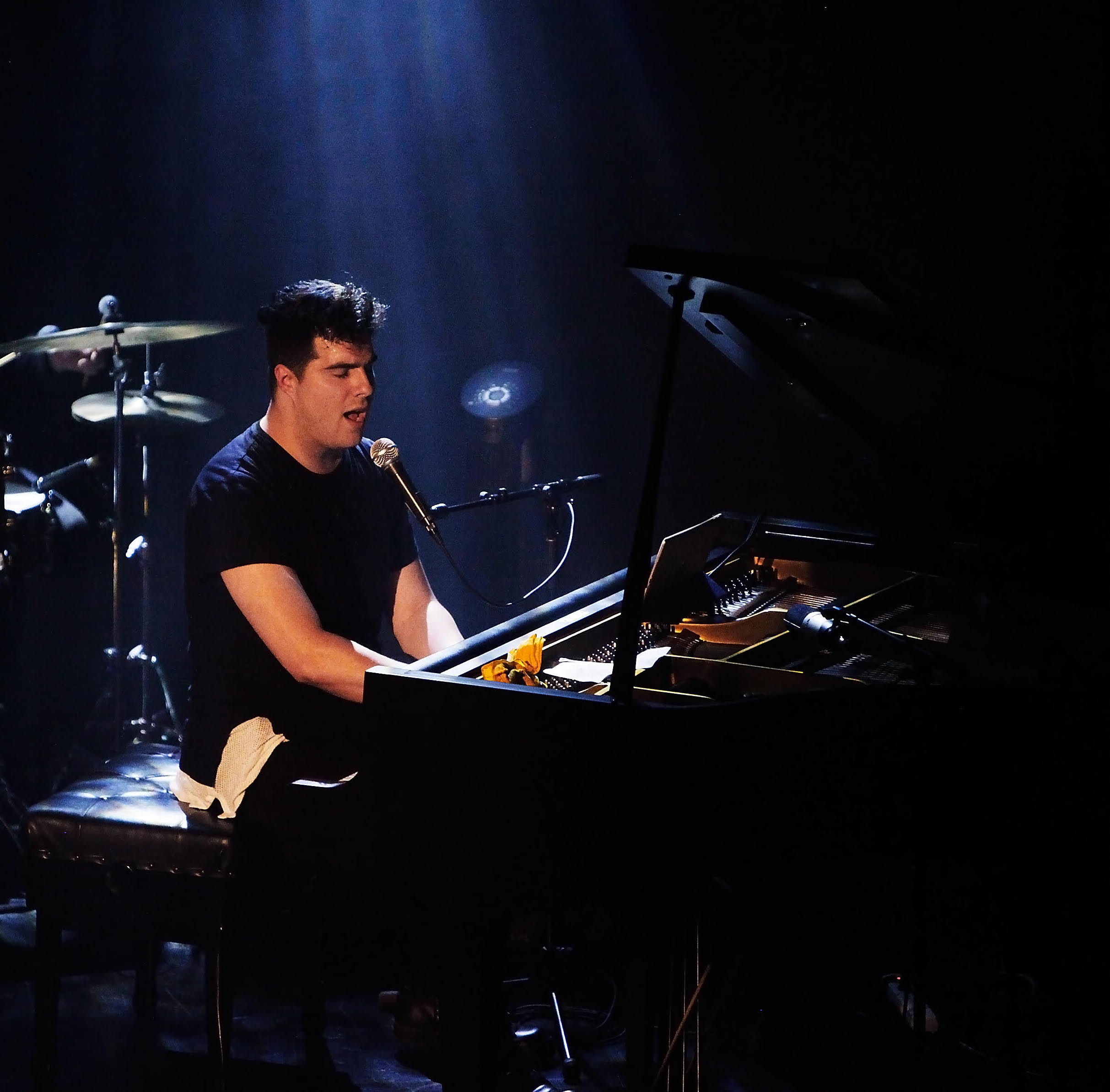 Jeremy Dutcher performing live in Toronto, ON at the Great Hall on June 9/18.